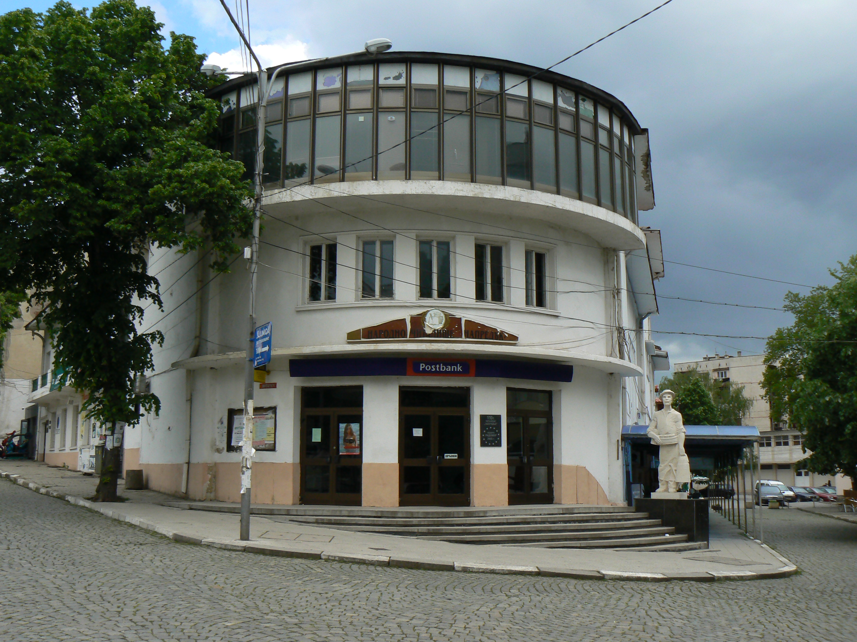 Library "Napredak" in Radomir, Bulgaria